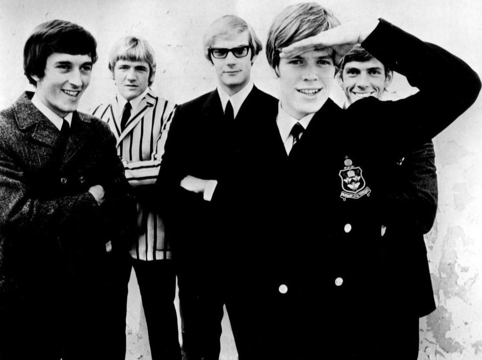 Photo of Herman's Hermits from a 1968 performance at the Ohio State Fair. The fair concert was broadcast on NBC as a television special "In Concert:With Herman's Hermits".